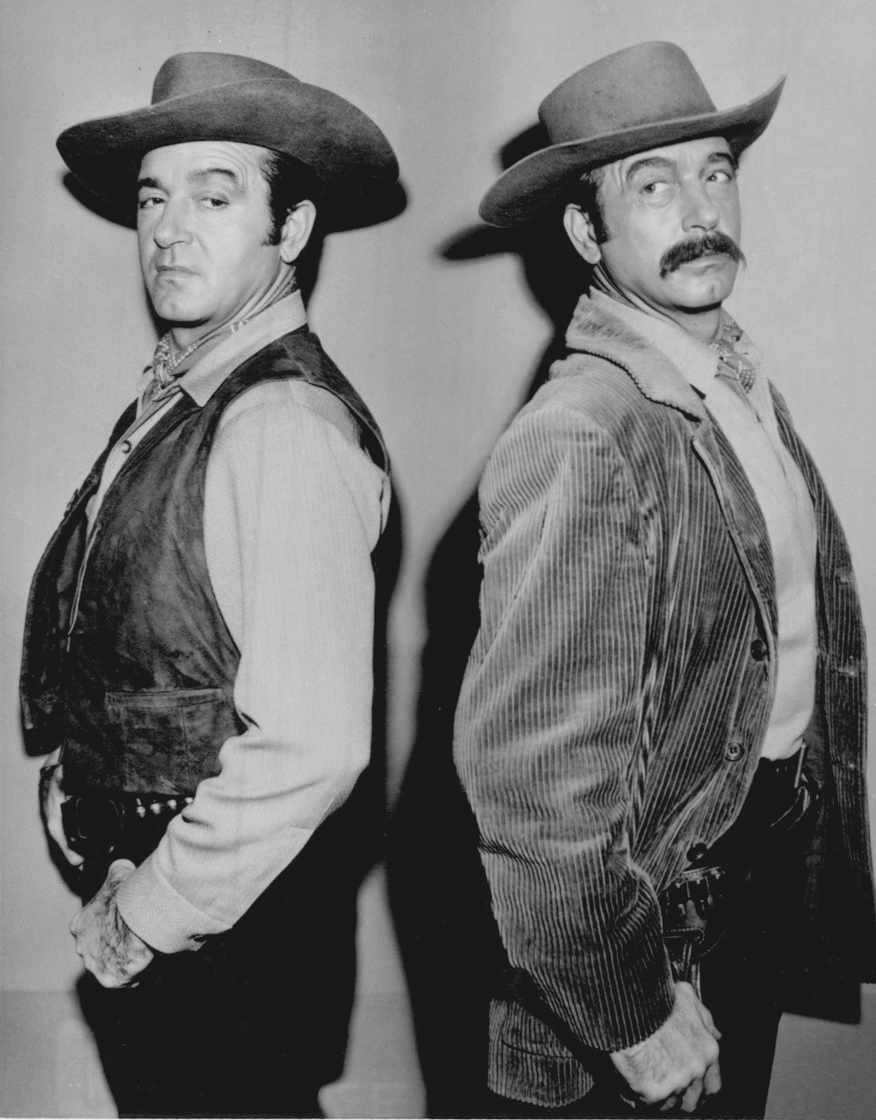 Photo of John Payne as both Vint Bonner and badman Gene Baroda (at right). In this unique episode, Payne plays both the hero and villain, ending with a shootout between his two characters. The episode is "Dead Ringer".